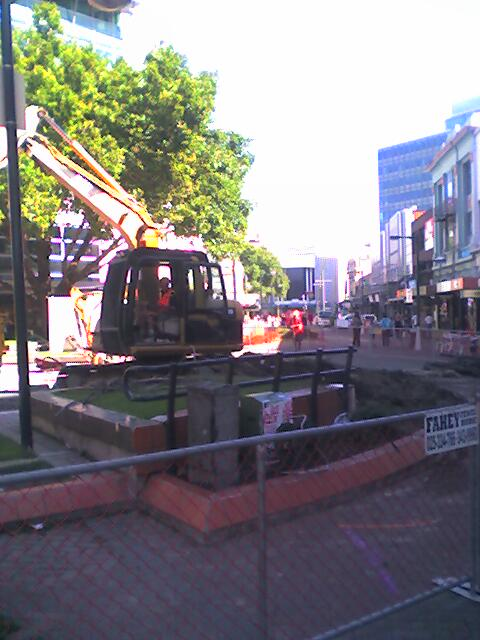 Destruction begins on the Hack Circle Taken on 1 February 2008, uploaded by the photographer.